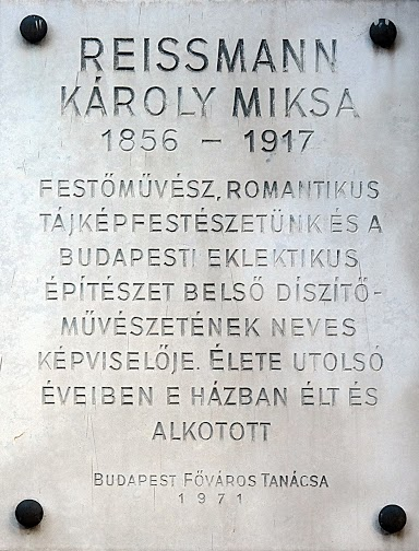 Károly Miksa Reissmann commemorative plaque in Budapest District XI, Bartók Béla Street No 78.